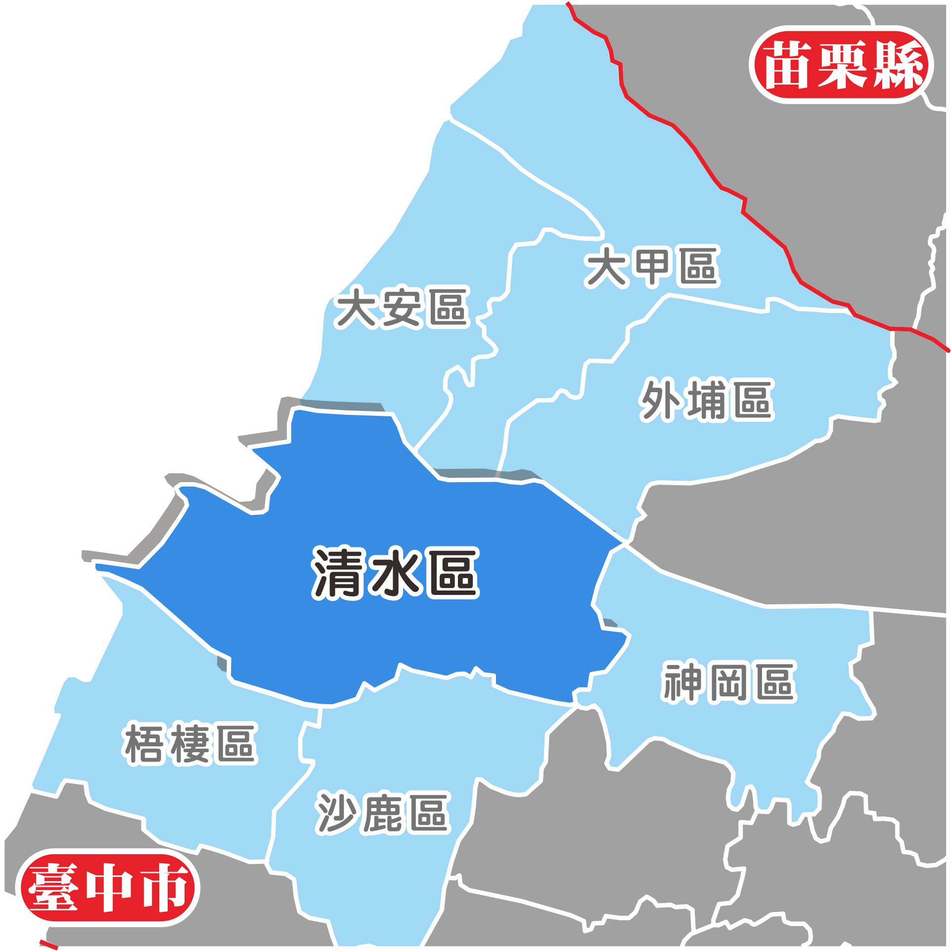 Map of Qingshui District, Taichung City